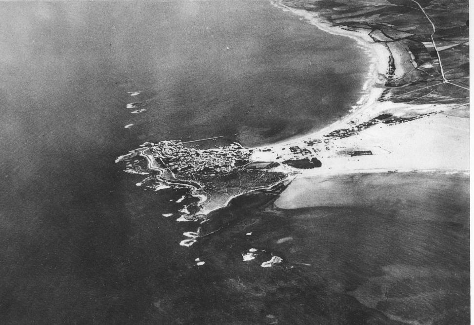 Aerial photo of Tyre made by France air force before 1934